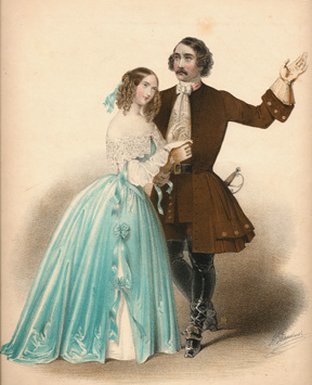 1846 drawing of Sims Reeves.